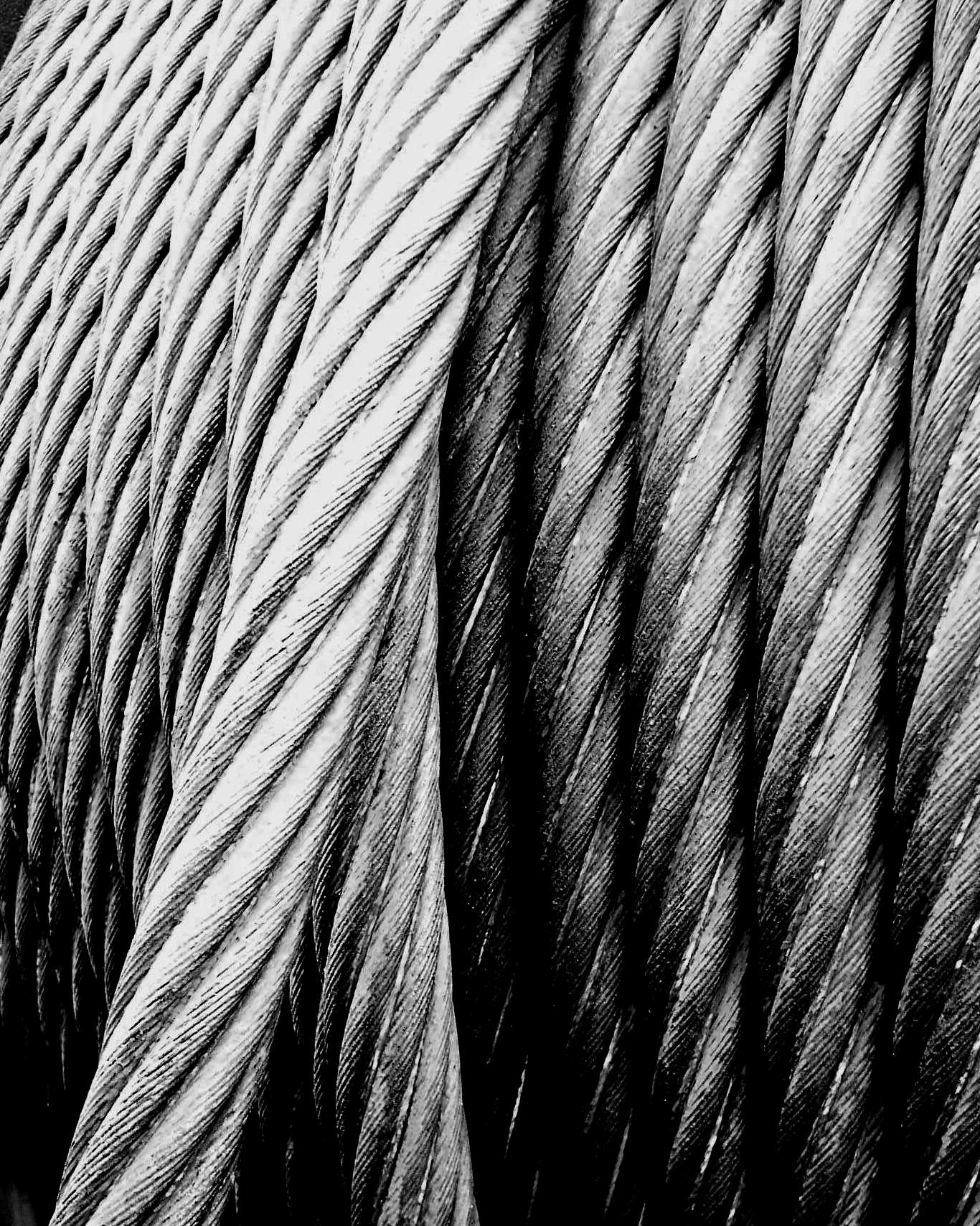 Steel wire rope of the the German colliery "Zeche Zollern" headgear